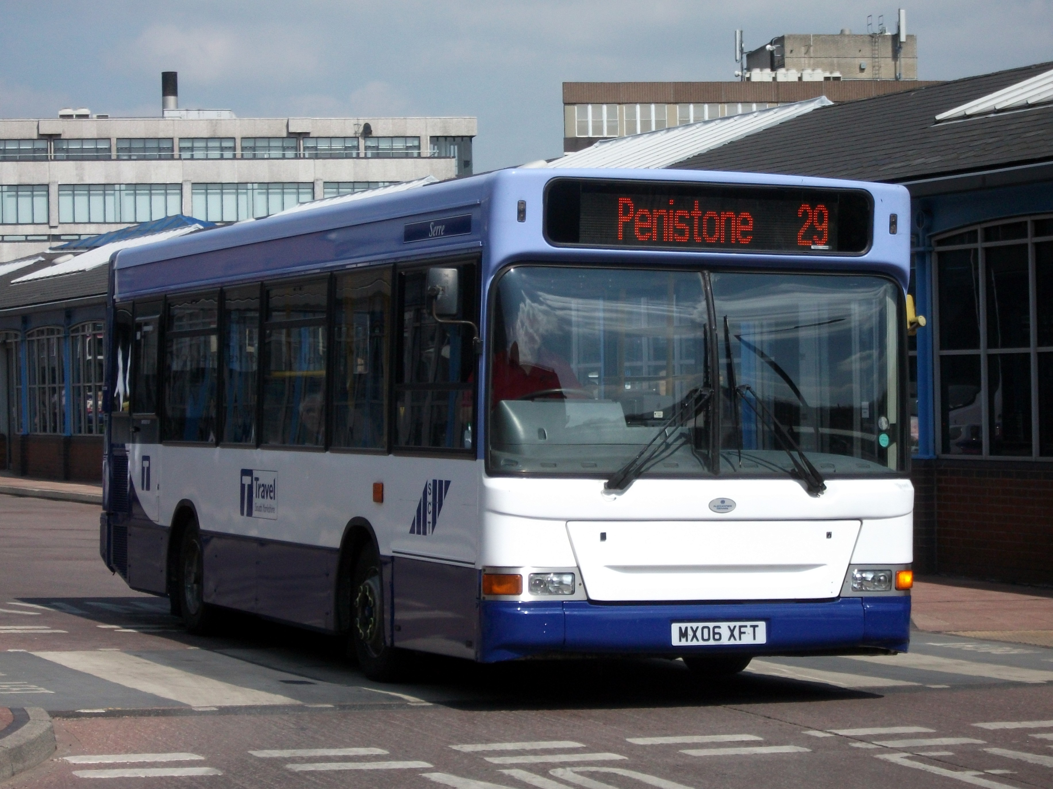 Sheffield Community Transport, ADL Dart Plaxton Pointer (MX06 XFT)